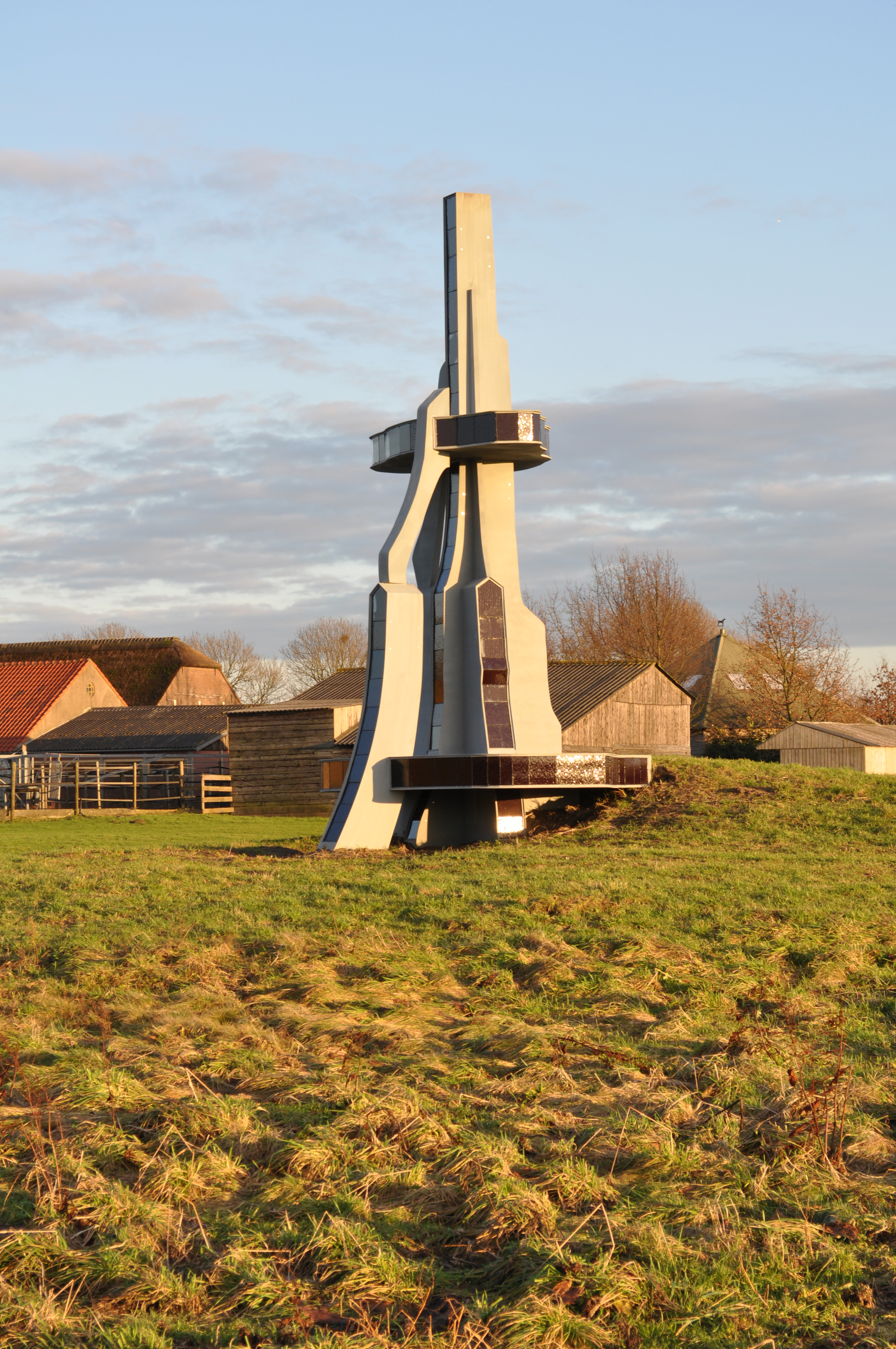 Sculpture by Rob Voerman. Placed at the Sculpture Park Leidsche Rijn (Het Lint Vleuterweide) around 2010.